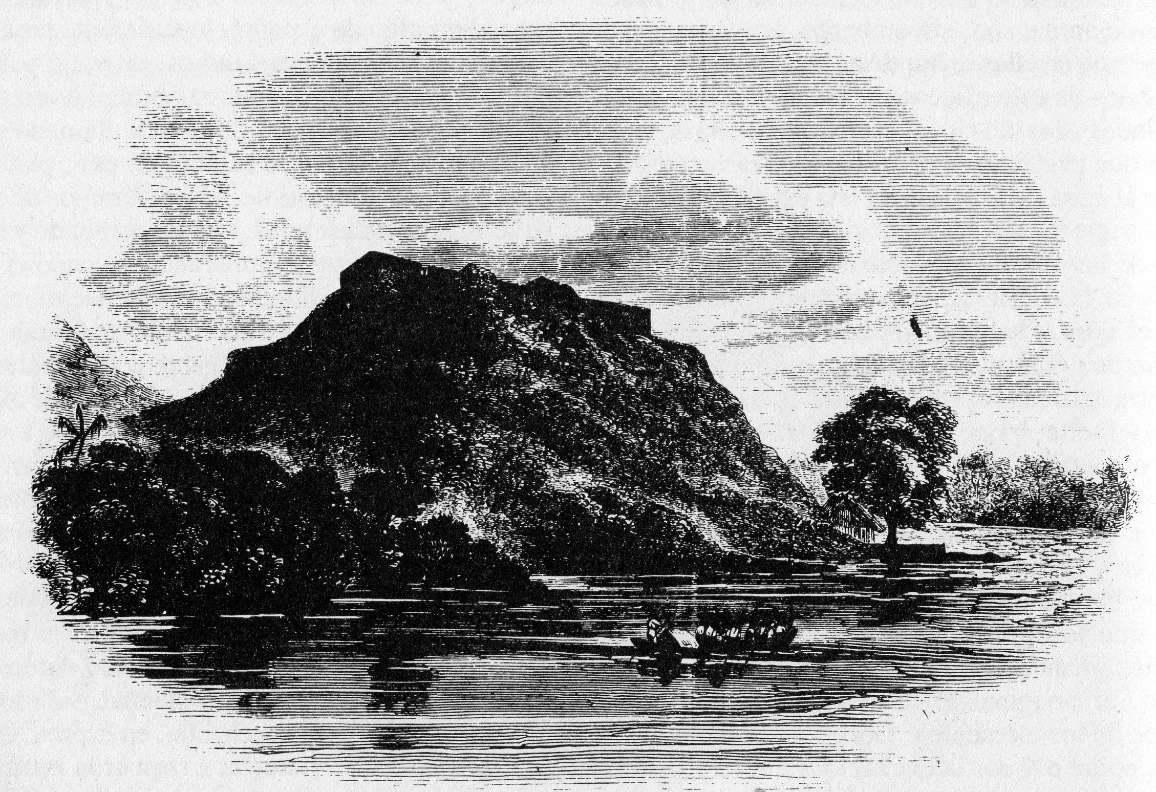 Castillo de la Inmaculada Concepción, Nicaragua, Río San Juan 1849. Scetch from Ephraim George Squier